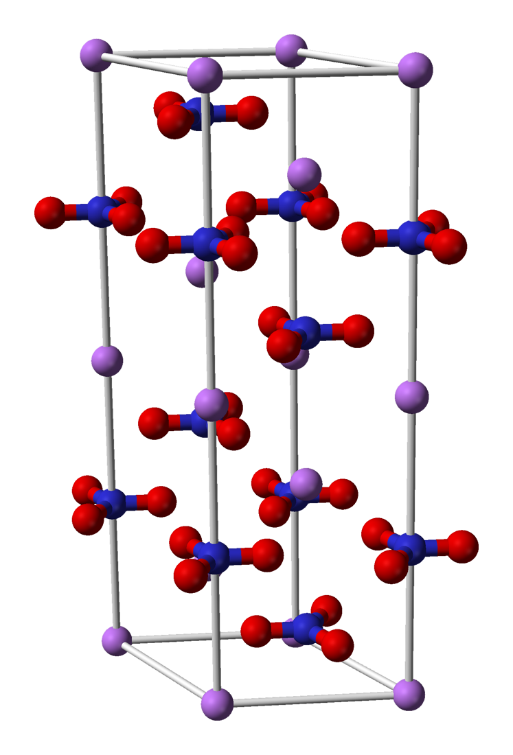 Ball-and-stick model of the unit cell of lithium nitrate, LiNO3